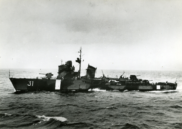 The Swedish destroyer HMS Munin, later rebuilt as frigate.